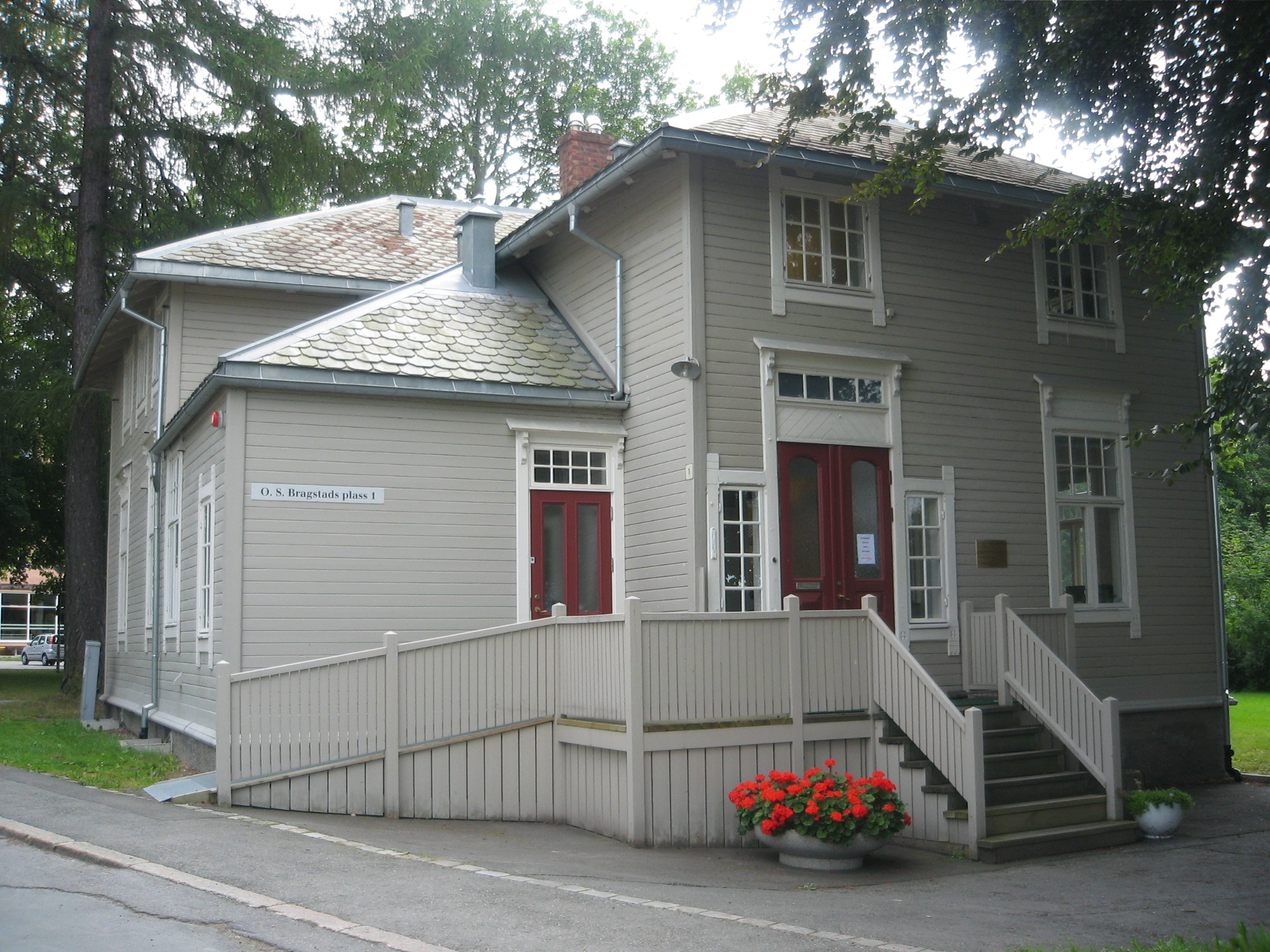 Headmaster's house, School for the deaf, Gløshaugen, Trondheim. 1898. Architects: Solberg & Christensen